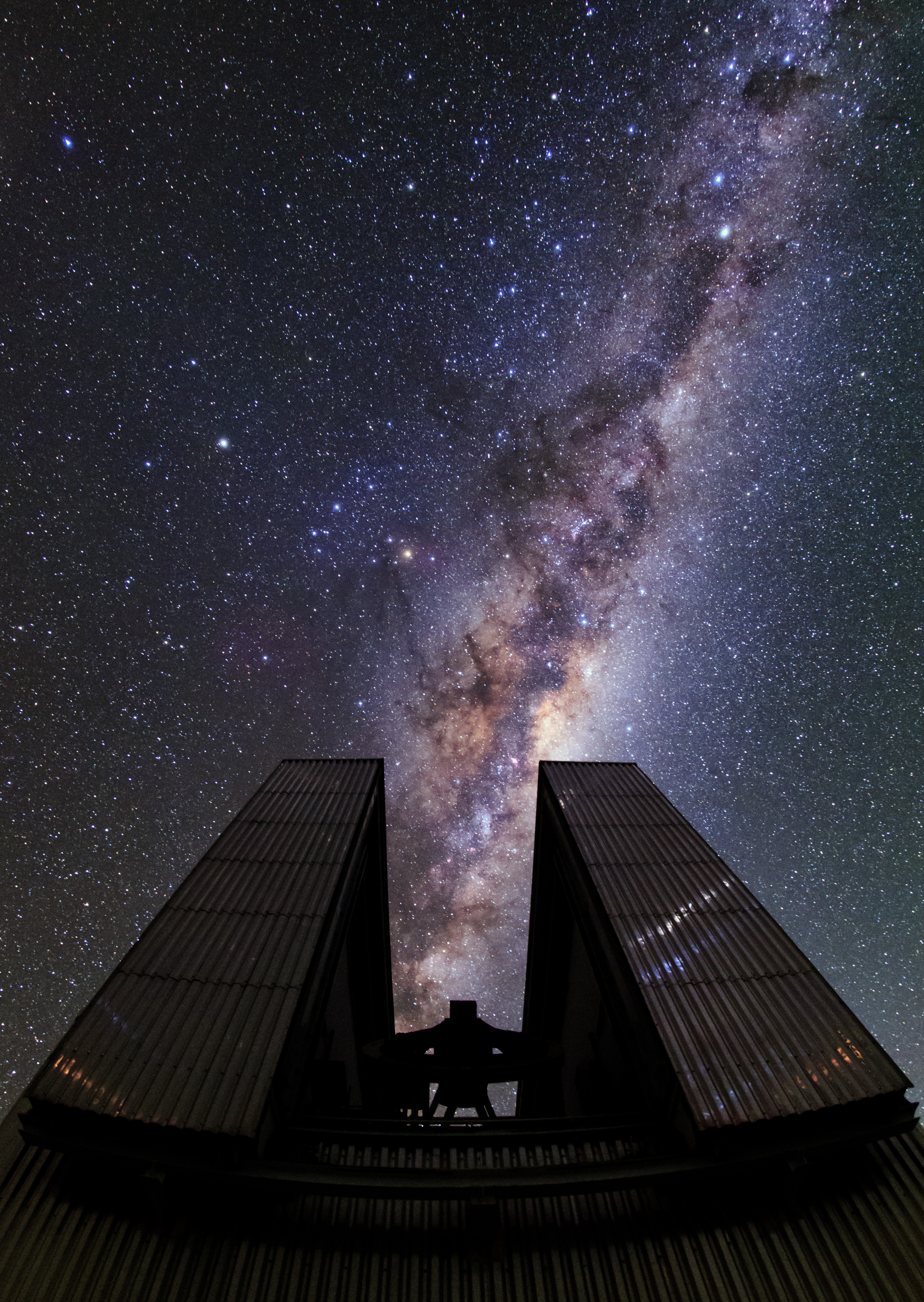 A curtain of stars surrounds the 3.58-metre New Technology Telescope (NTT) in this new Ultra High Definition photograph from the ESO Ultra HD Expedition [1]. It was captured on the first night of shooting at ESO's La Silla Observatory, which sits at 2400 metres above sea level on the outskirts of the Chilean Atacama Desert. The majestic telescope enclosure aligns perfectly with the Milky Way’s central region — the brightest section and the area which obscures the galactic centre. The distinctive octagonal enclosure that houses the NTT stands tall in this image — silhouetted against the glittering cosmos above and almost appearing to consume the Milky Way. This telescope housing was considered a technological breakthrough when completed in 1989. Visible to the left of the Milky Way is the bright orange star Antares at the heart of Scorpius (The Scorpion). Saturn can be seen as the brightest point to the upper left of Antares and Alpha and Beta Centauri glow in the upper right of the image. The Southern Cross (Crux) and the Coalsack dark nebula are also visible looming above Alpha and Beta Centauri. La Silla was ESO’s first observatory, inaugurated in 1969. The NTT pictured above was the first telescope in the world to have a computer-controlled main mirror and broke new ground for telescope engineering and design paving the way for ESO's Very Large Telescope. Notes [1] The team is made up of ESO's videographer Herbert Zodet, and three ESO Photo Ambassadors: Yuri Beletsky, Christoph Malin and Babak Tafreshi. Information on the expedition's technology partners can be found here, and their blog here.